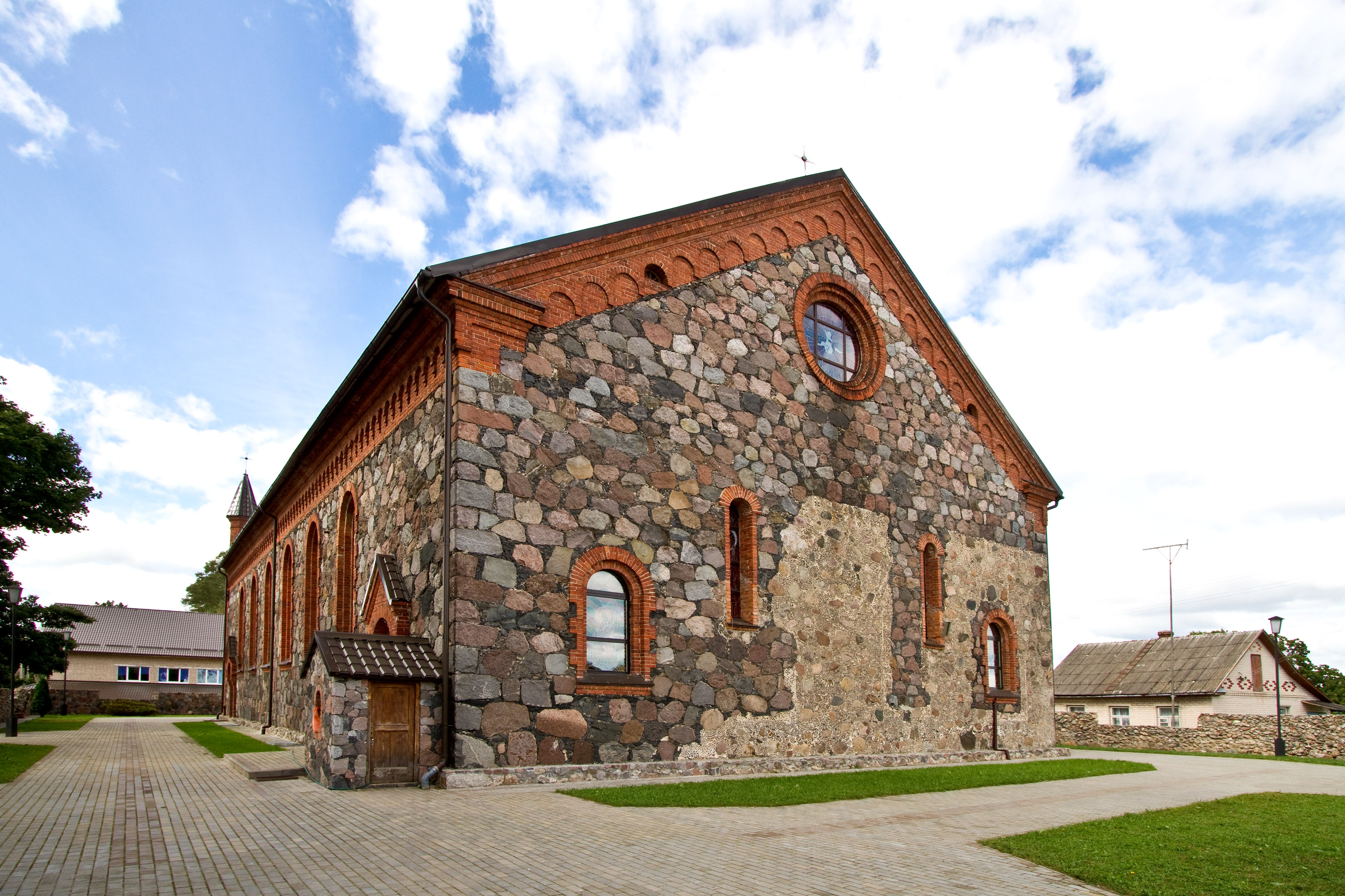 Catholic church of Virgin Mary, Brasłaŭ. Viciebsk province, Belarus.